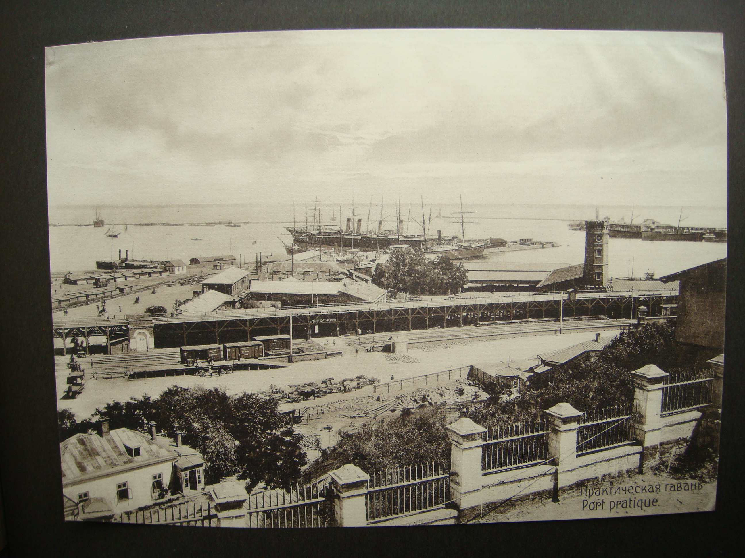 This is photo view of Odessa from Souvenir Photo Album published in Odessa circa early XX century.